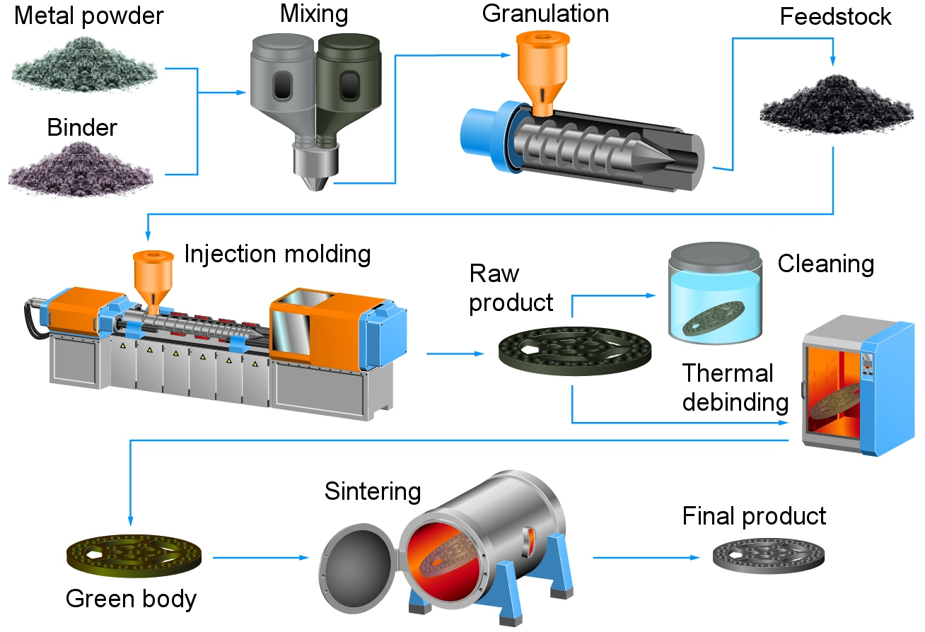 Powder injection molding schematics